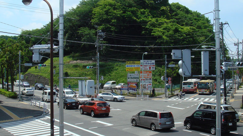 The intersection of Tsurukawa station eastgate on Tsurukawa highway at Machida, TOKYO